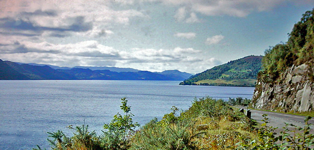 SW on Loch Ness from A82 at Urquhart Bay. Here the main road along Loch Ness from Inverness to Fort Augustus has to deviate round to the right to cross the Enrick River at Drumnadrochit. Urquhart Castle can just be seen at the tip of the next promontory. On the horizon are high peaks of the Monadhliath Mountains.